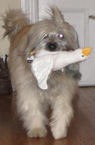 Pyrenean Sheepdog walking with a toy goose